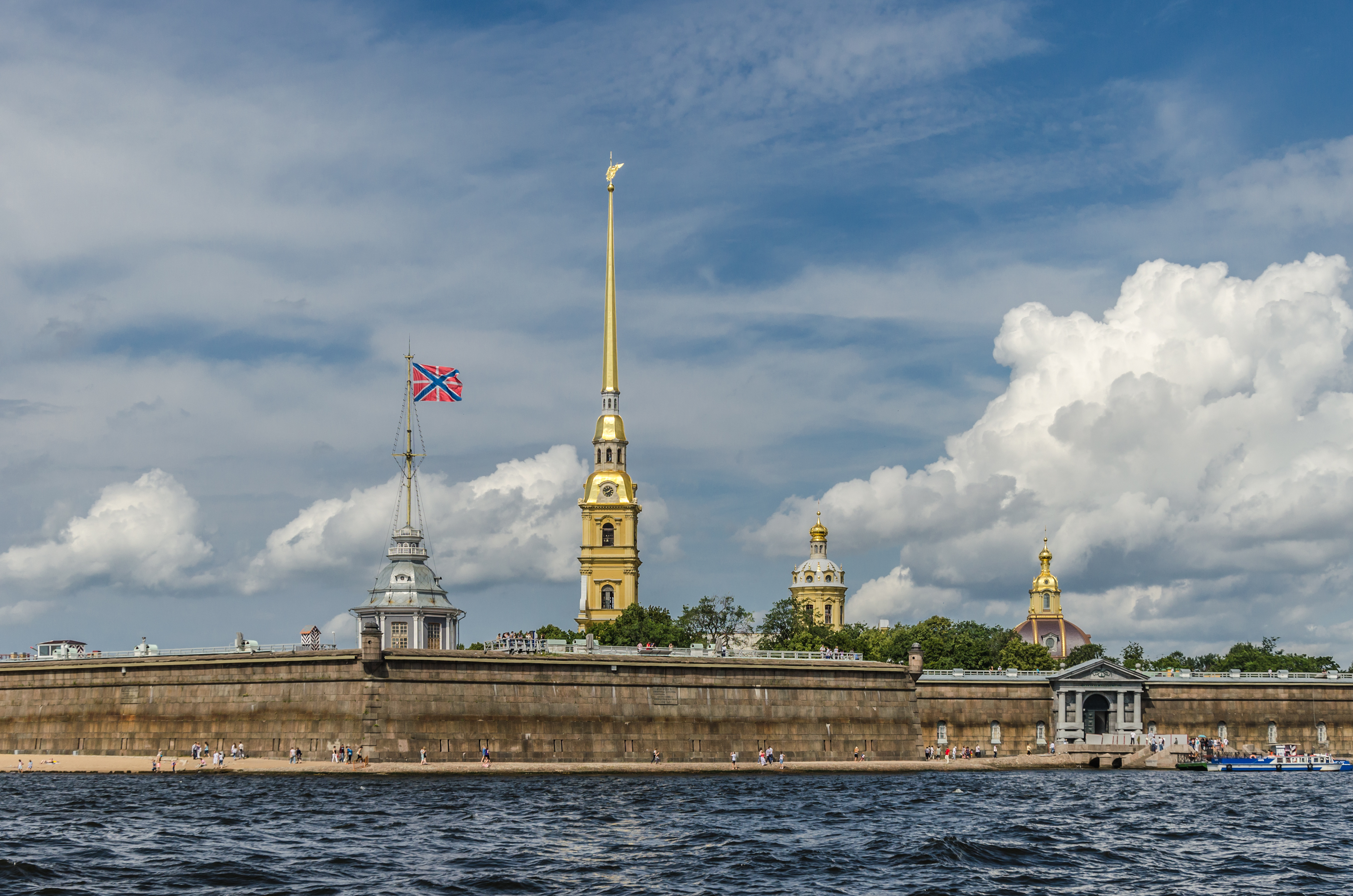 Peter & Paul fortress in Saint Petersburg